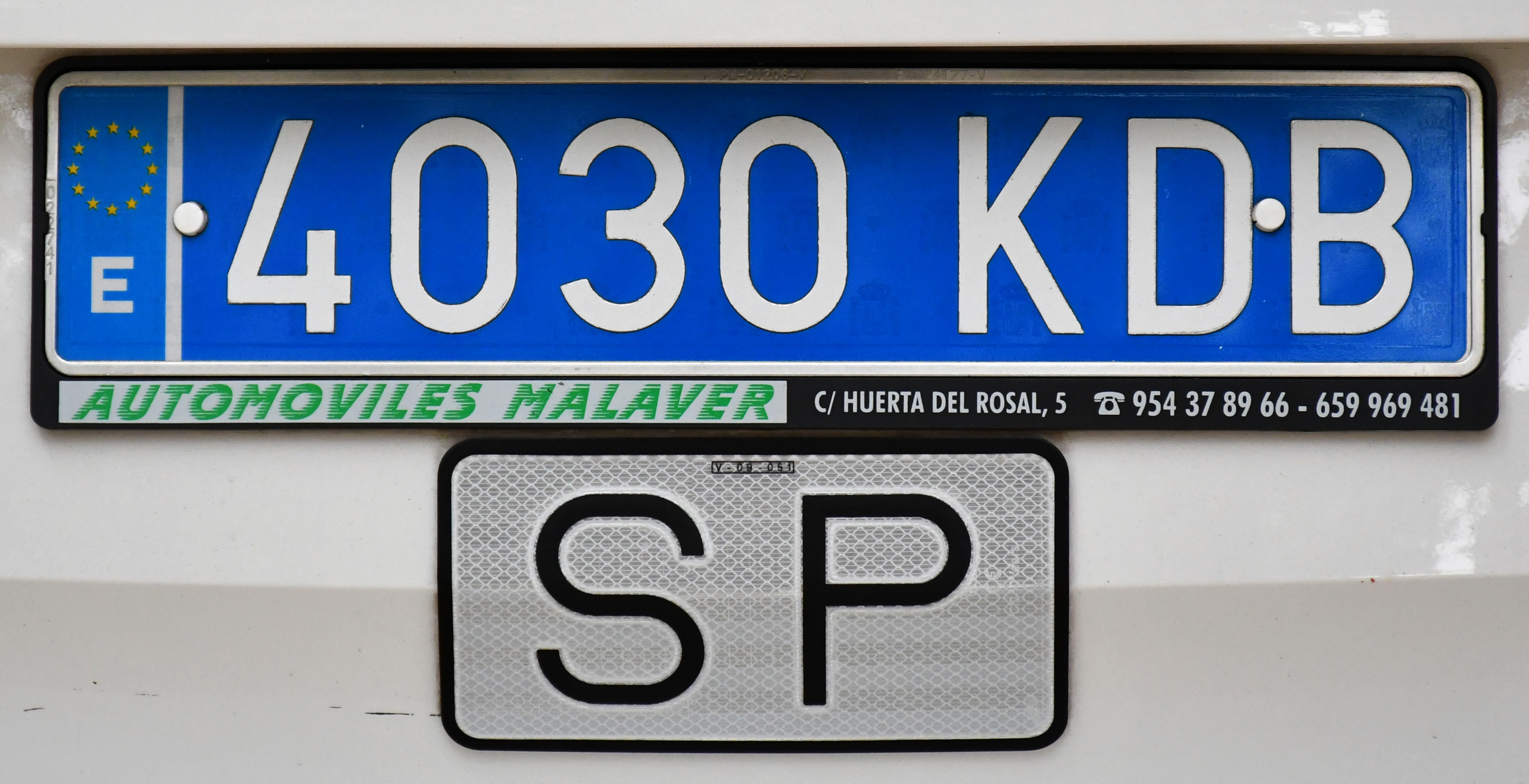 Spanish cab's rear registration plate, blue since 2018.